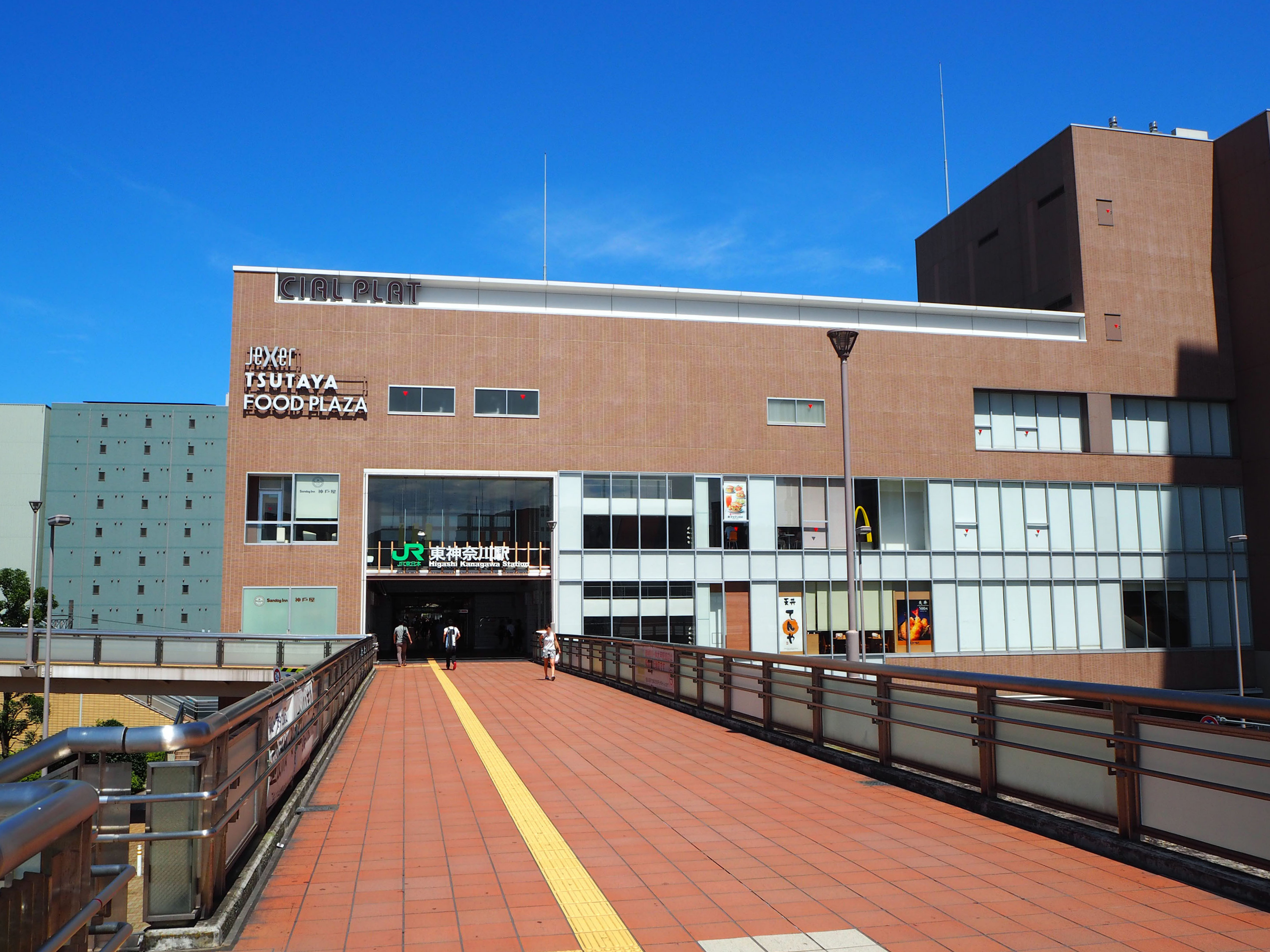 The east side of Higashi-Kanagawa Station in Kanagawa Prefecture, Japan